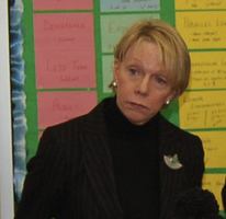 NYC Schools Chancellor Cathie Black visits Hillcrest High School in Jamaica, Queens, December 13, 2010. Photo courtesy of lancmanoffice, via Flickr. This file has been extracted from another file: Cathie Black Visits Hillcrest High School, December 13, 2010.jpg